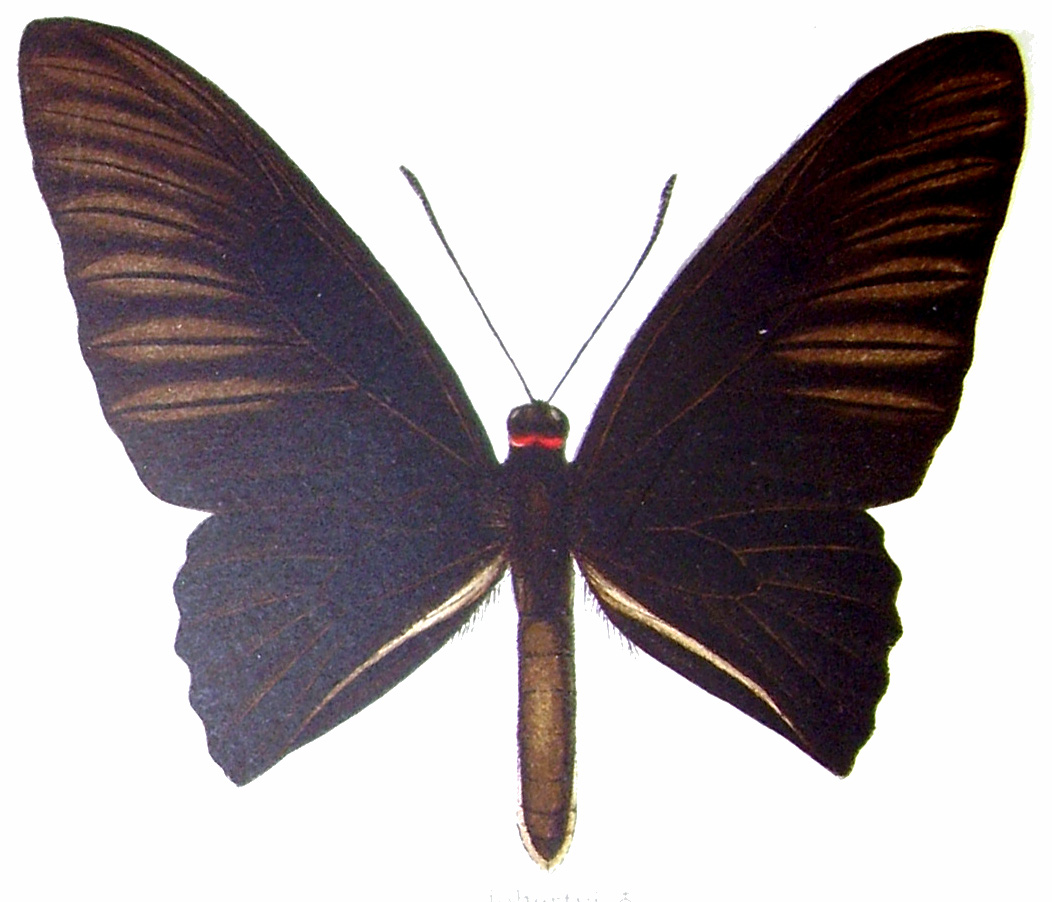 Talaud Black Birdwing, male, upperwing